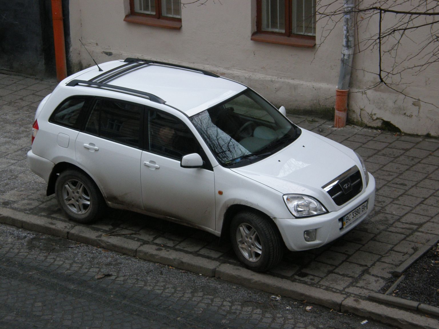 Chinese car in Ukraine. Chery Tiggo